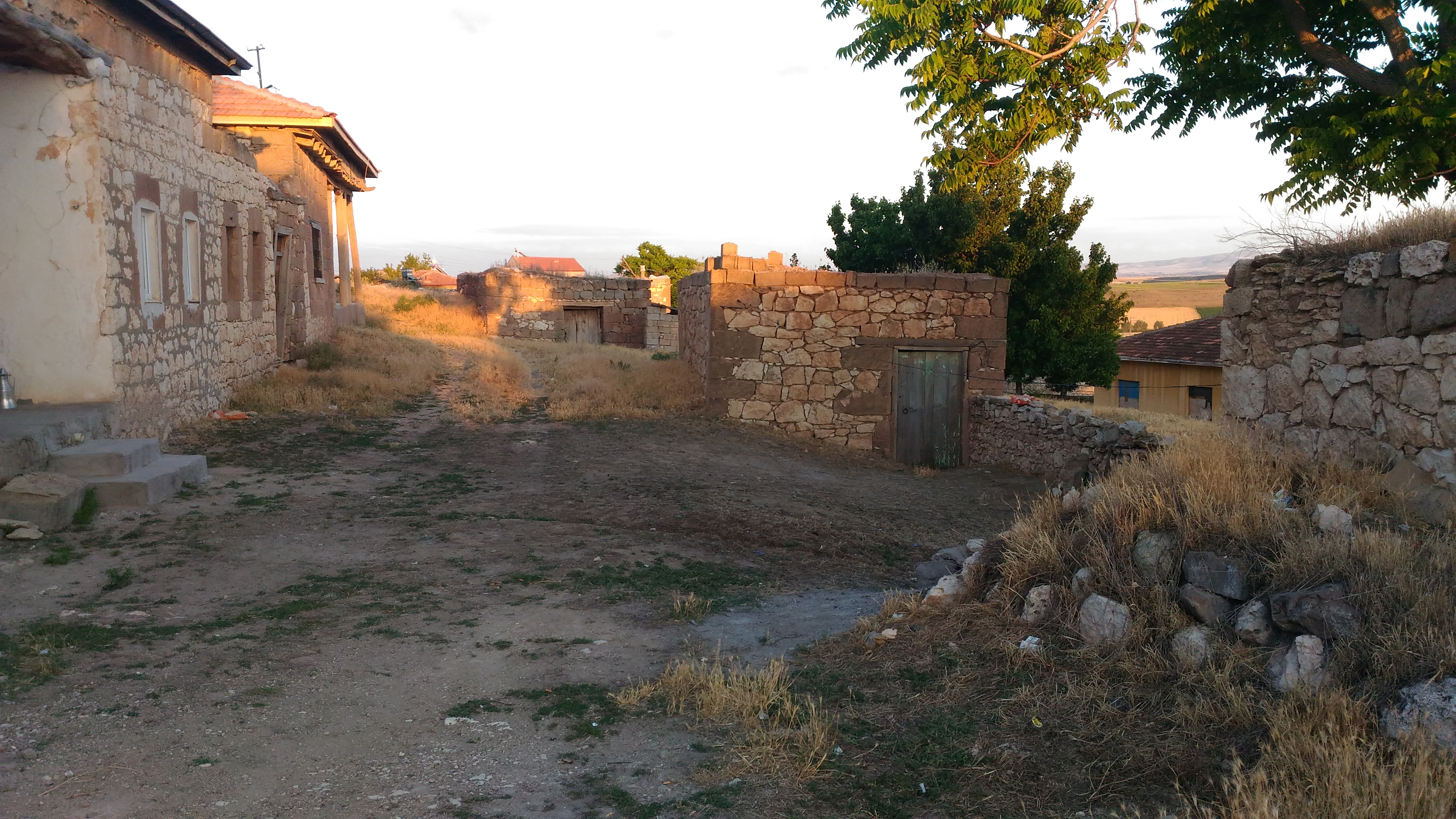 Abandoned part of the Village Gerce (in Kozaklı, Nevşehir, Turkey)